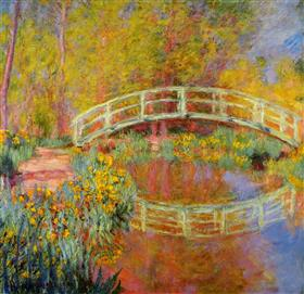 Work by Claude Monet